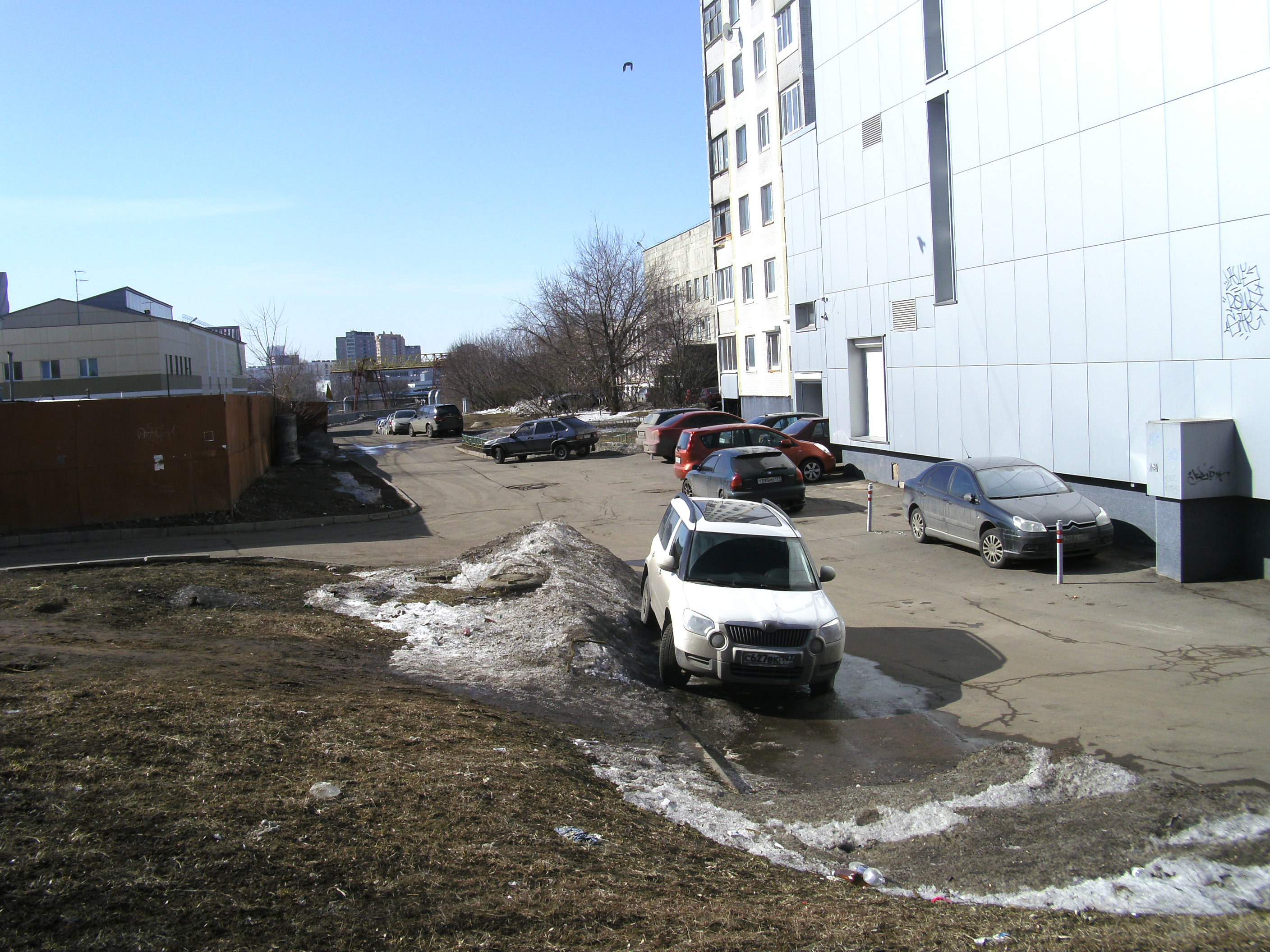 The end of Solnechnogorsky proezd street, Moscow, Russia